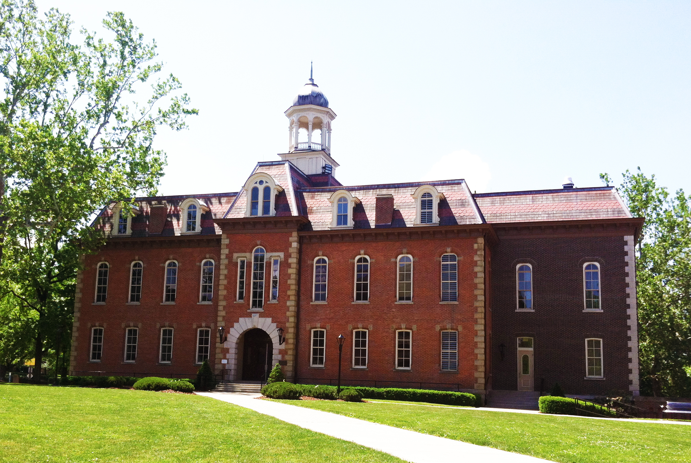 Located in the heart of WVU’s Downtown Campus, Martin Hall is the oldest building on the University campus.